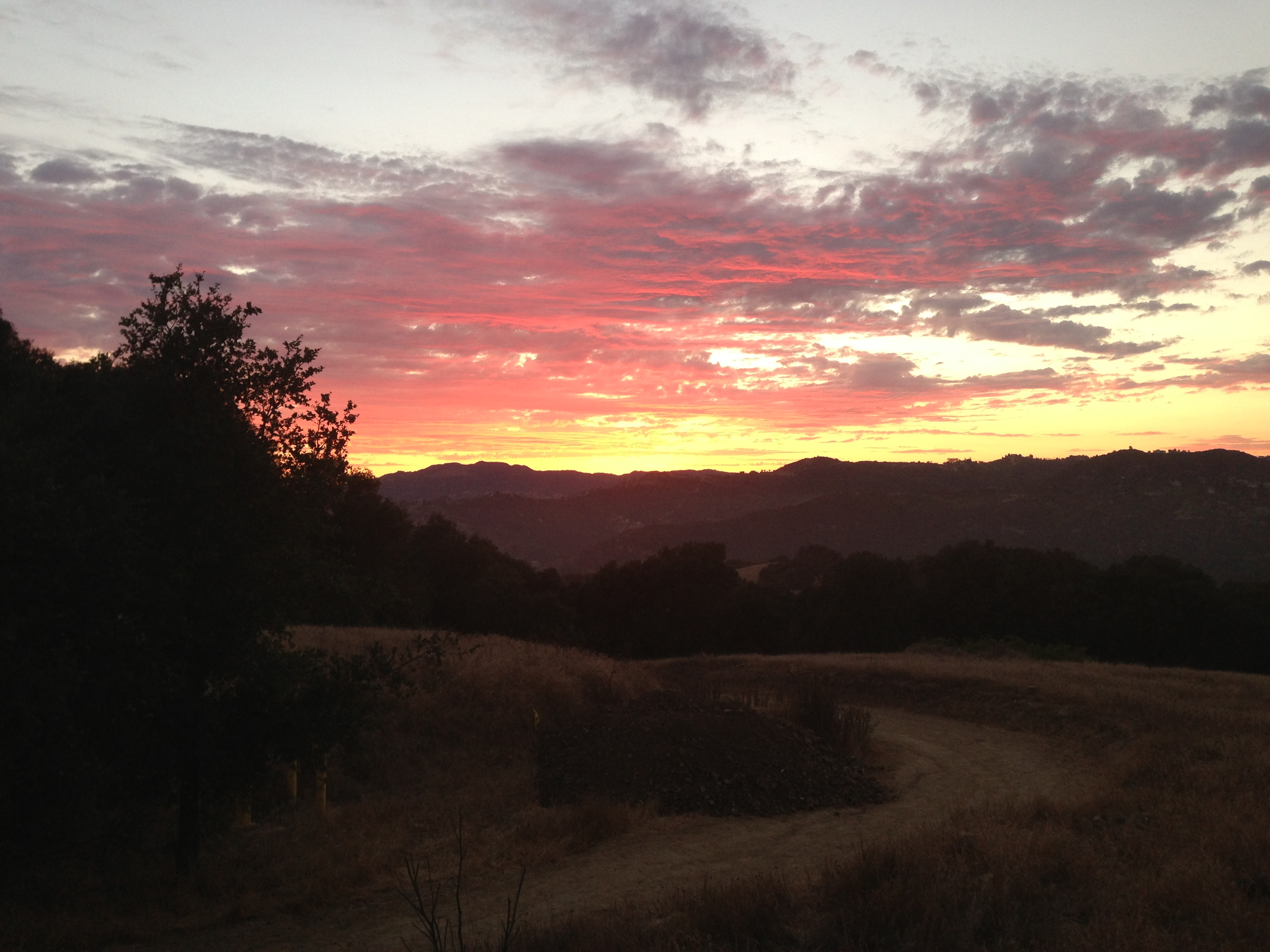 A colorful sunset at Topanga State Park (the actual park name) in July 2013. The road leads through a California oak woodland to the Trippet Ranch parking area.